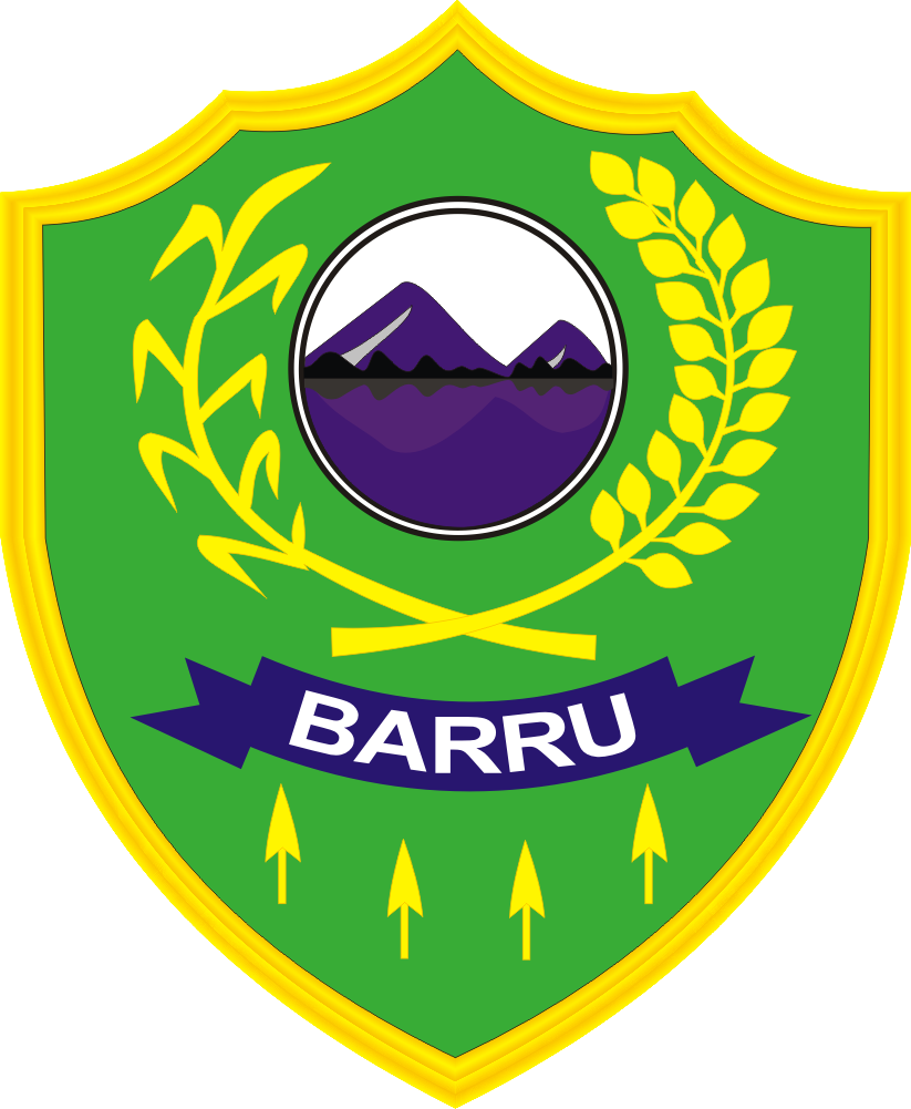 Barru Regency Logo